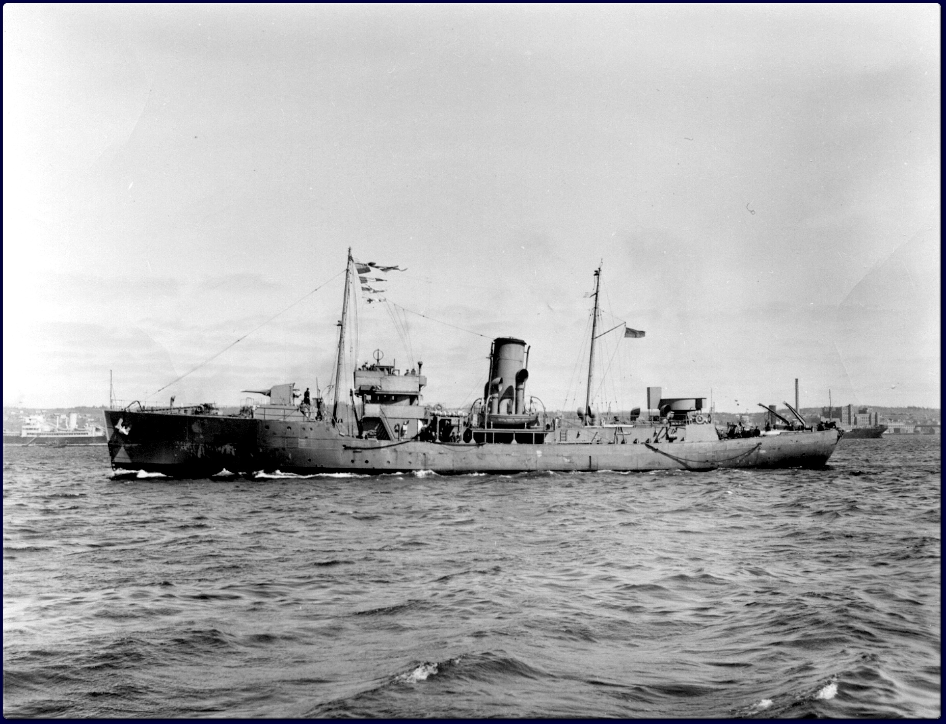 HMCS Chambly circa 1941 and in original 'as built' configuration